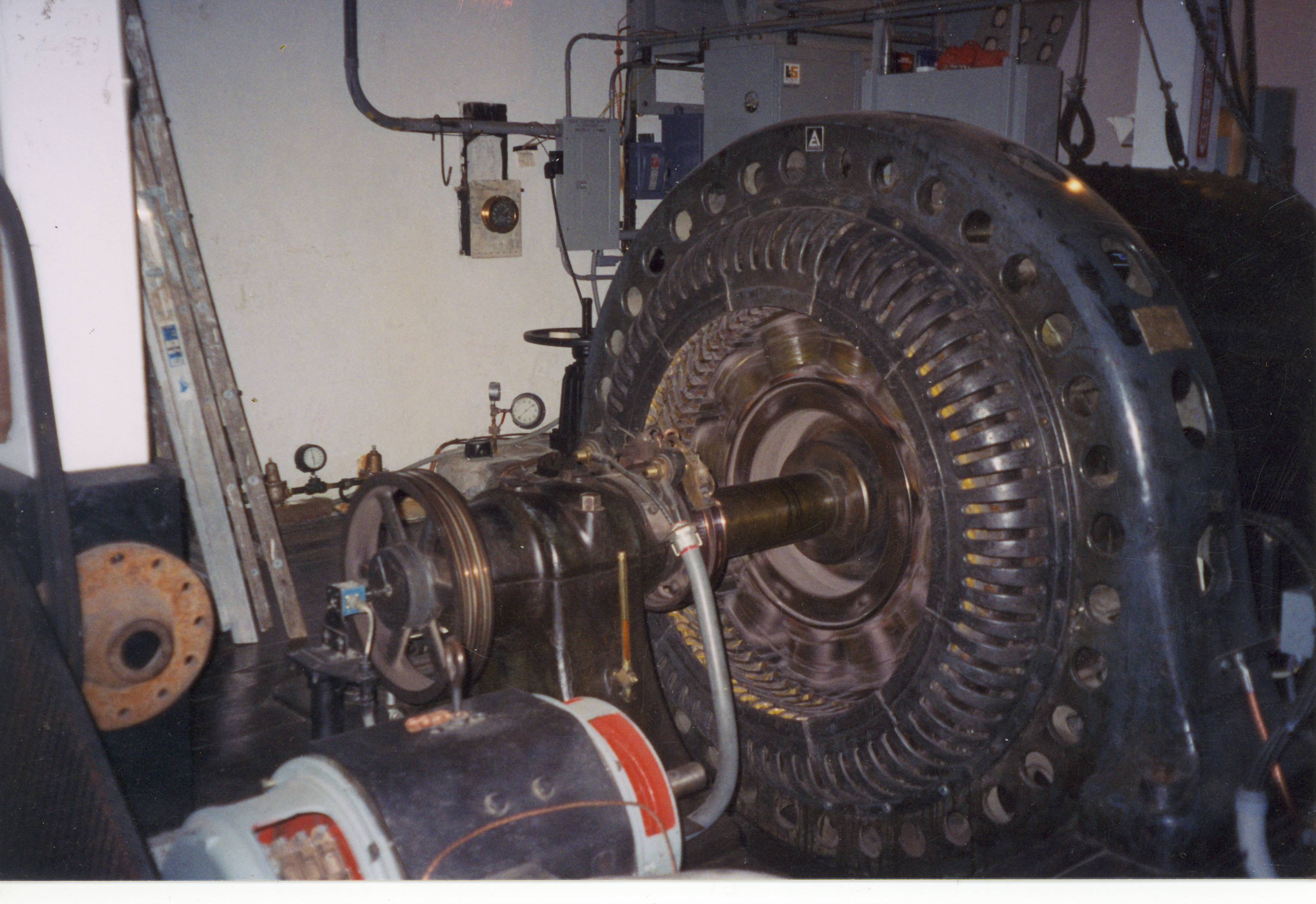 Image of the generator inside the Power Station atop Bridal Veil Falls, Telluride, CO. My understanding is that this is the second-oldest operating electricity generator in the U.S.